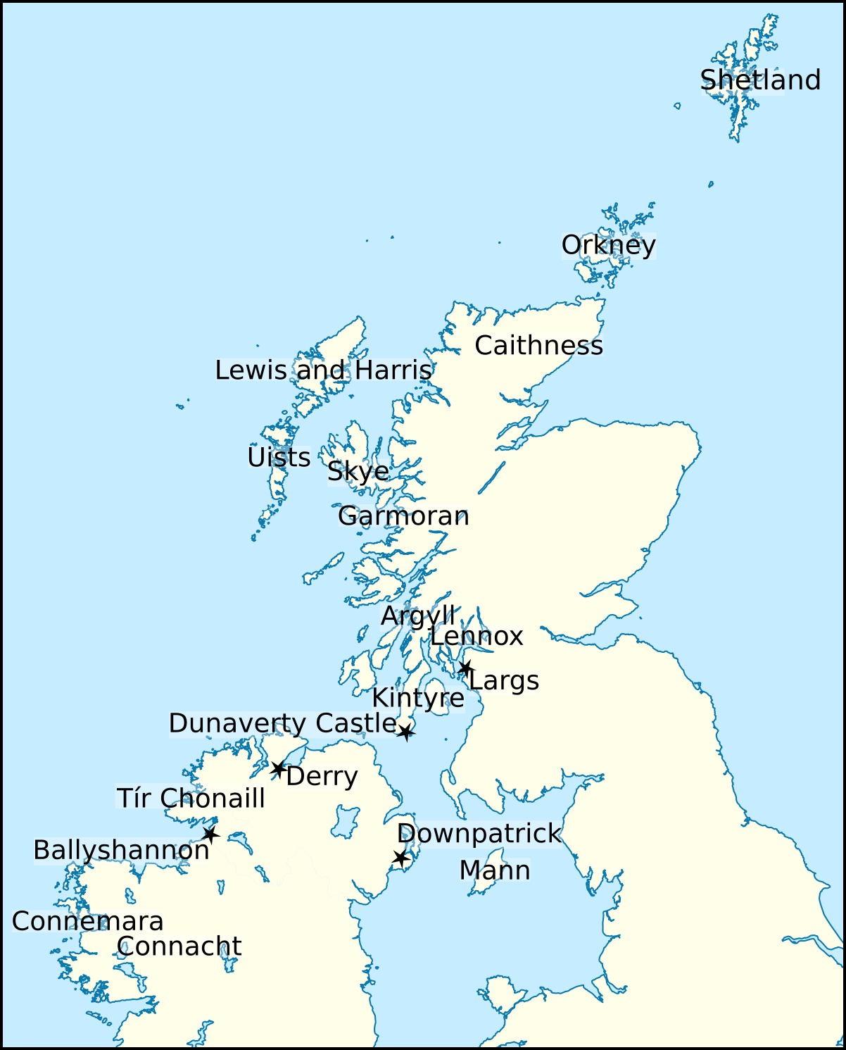 Map created for the Wikipedia article concerning Dubhghall mac Ruaidhri, King of Argyll and the Isles (died 1268).